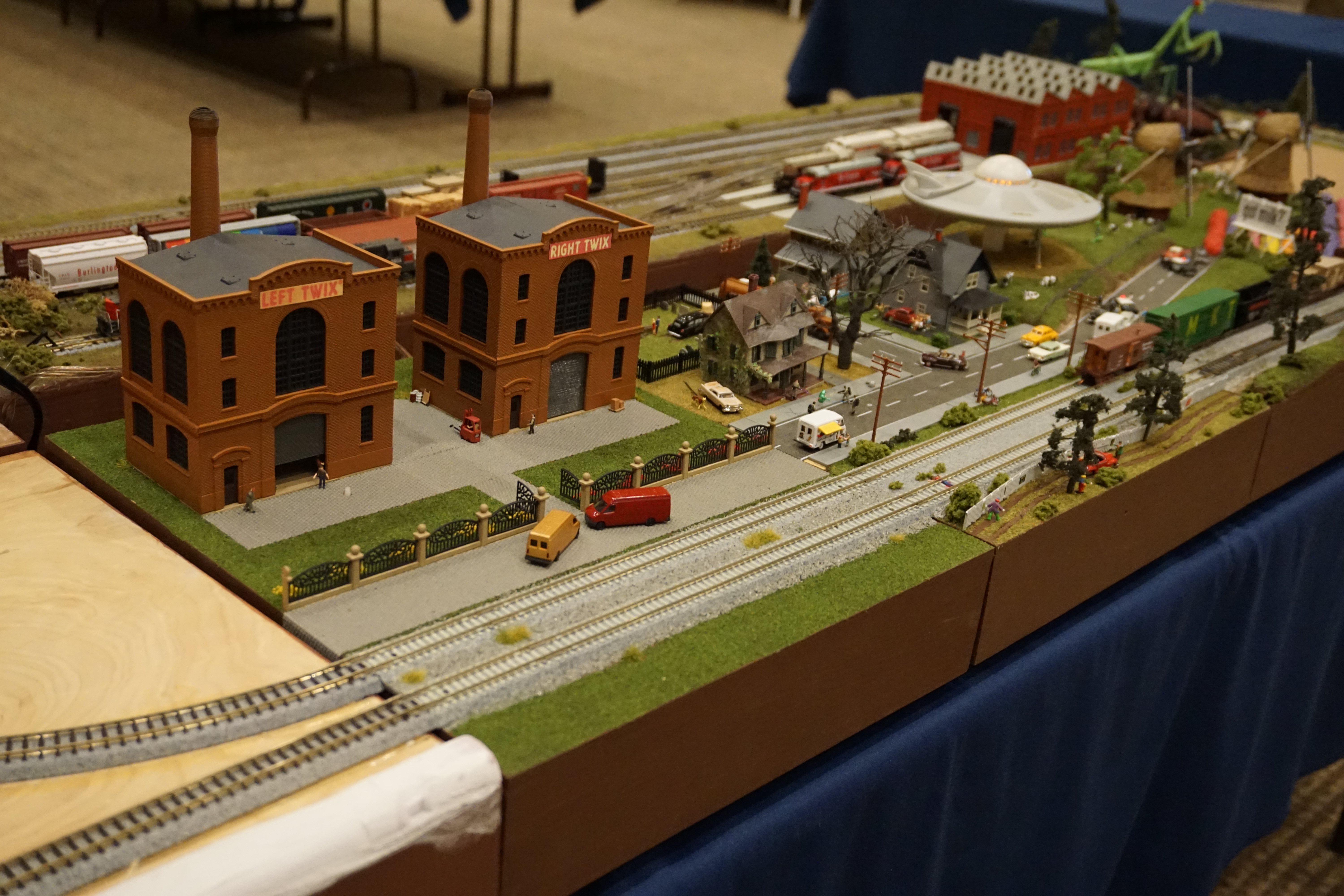 N gauge T-Trak modules of the North Texas T-Trak Modular Railroad Club at the 2015 Cotton Belt Regional Railroad Symposium in Commerce, Texas (United States).